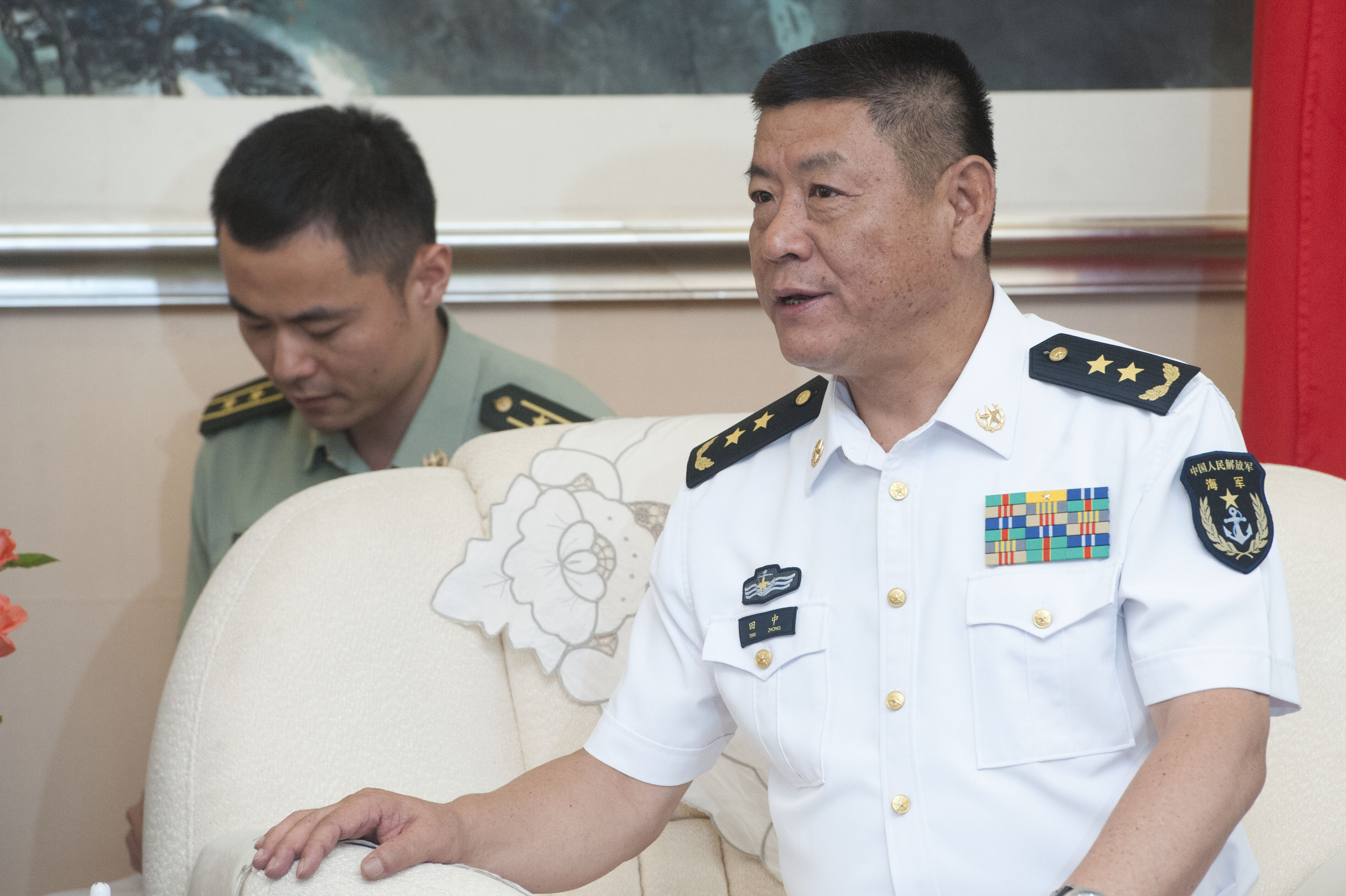 Secretary of Defense Leon E. Panetta is meets with Chinese Vice Admiral Tian Zhong, commander of the North Sea Fleet Qingdao China, Sept. 20, 2012. Panetta visited Tokyo, Japan before continuing to Beijing and Qingdao finishing in Auckland, New Zealand on a week long trip to the Pacific. DoD photo by Erin A. Kirk-Cuomo (Released)